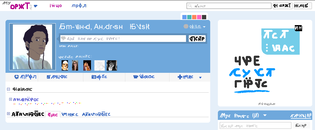 Visual appearance of the "New Orkut". Fake text is used.